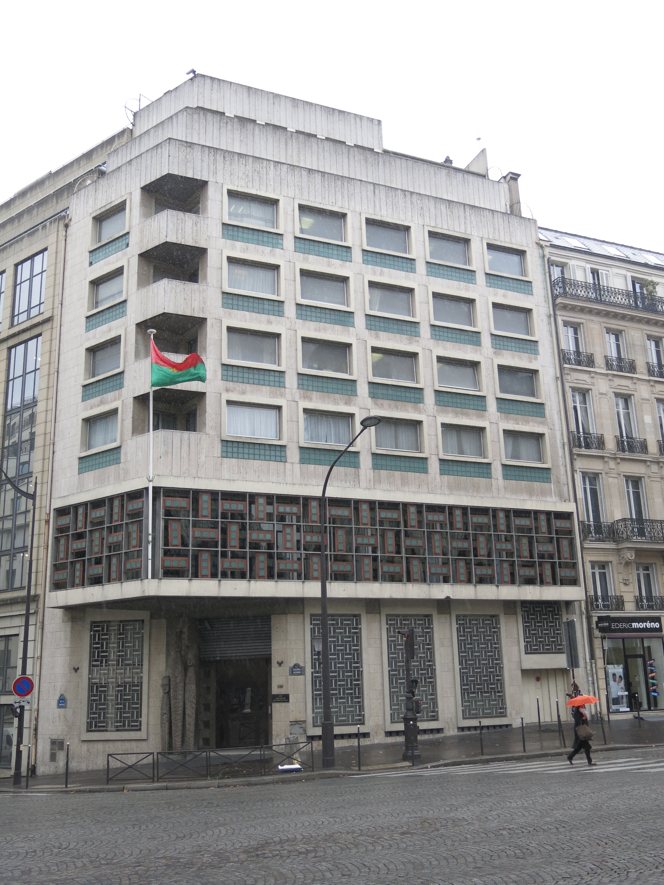 Building 159 boulevard Haussmann, Paris 8th arrond. (France). In 2015, it is the embassy of Burkina Faso.